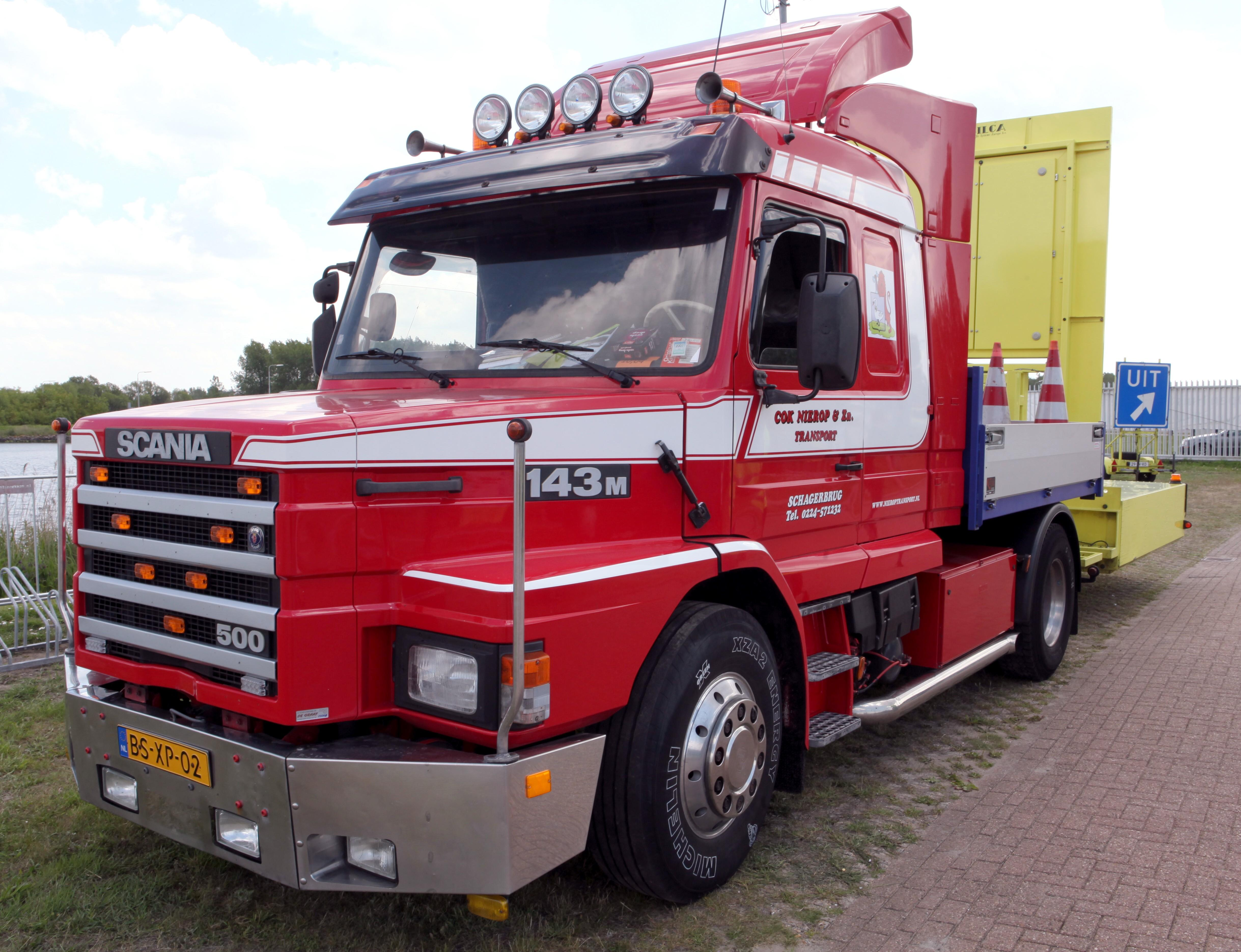 Scania 143 M 500 Cok Nierop & Zn. Transport Schagerbrug.